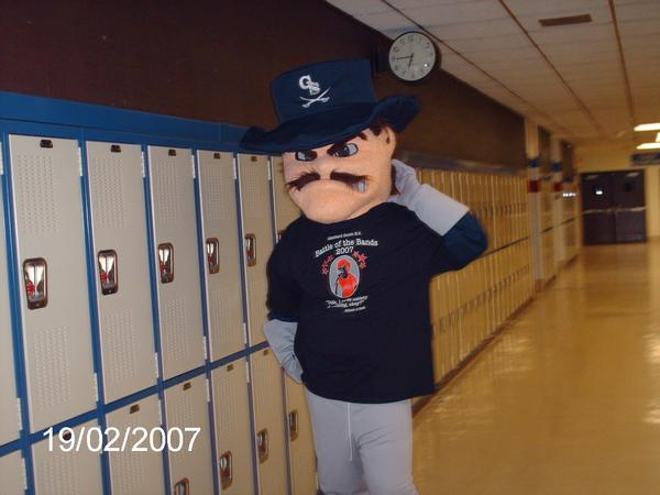 Glenbard South High School mascot